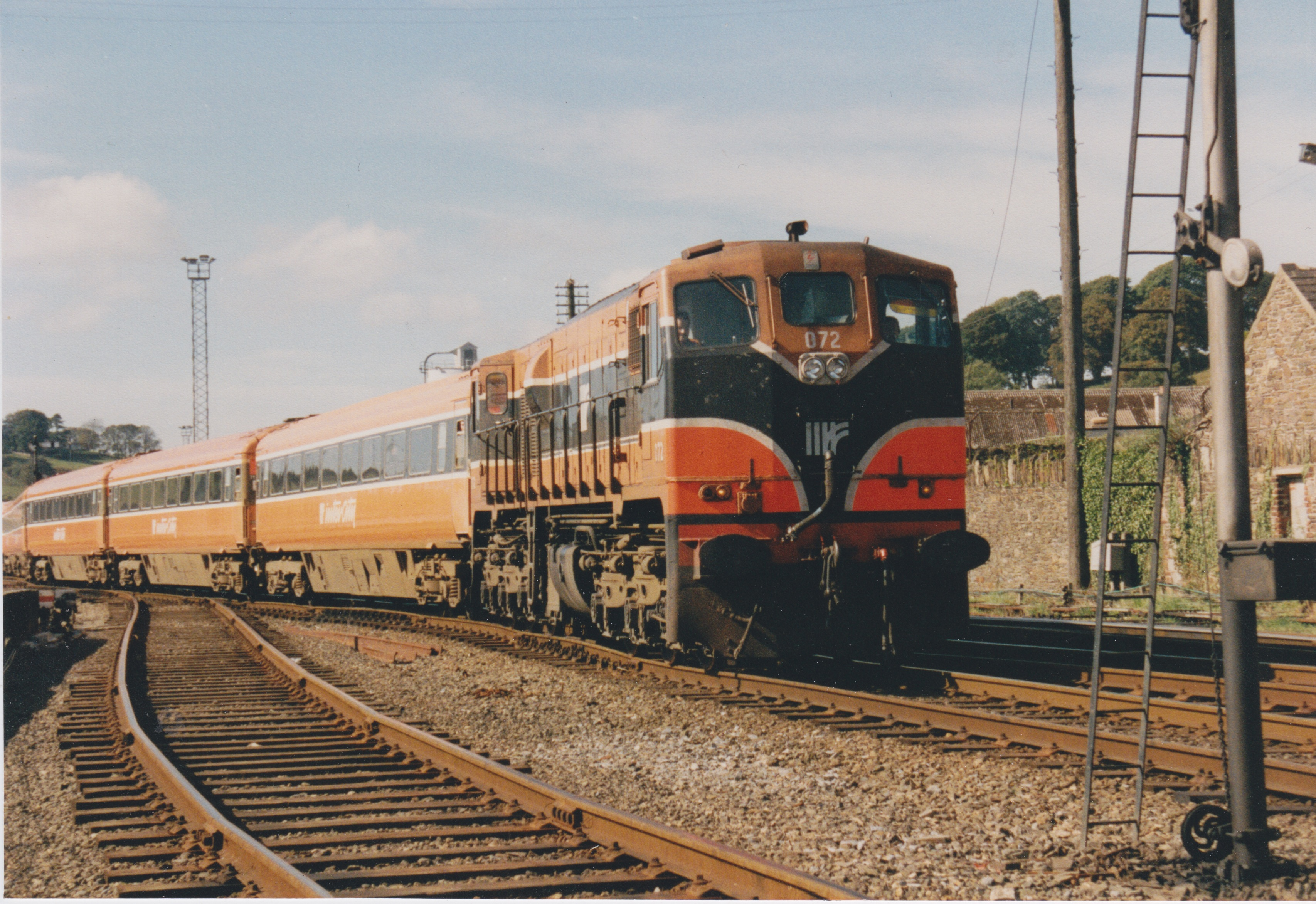 072 arriving in Waterford September 1995